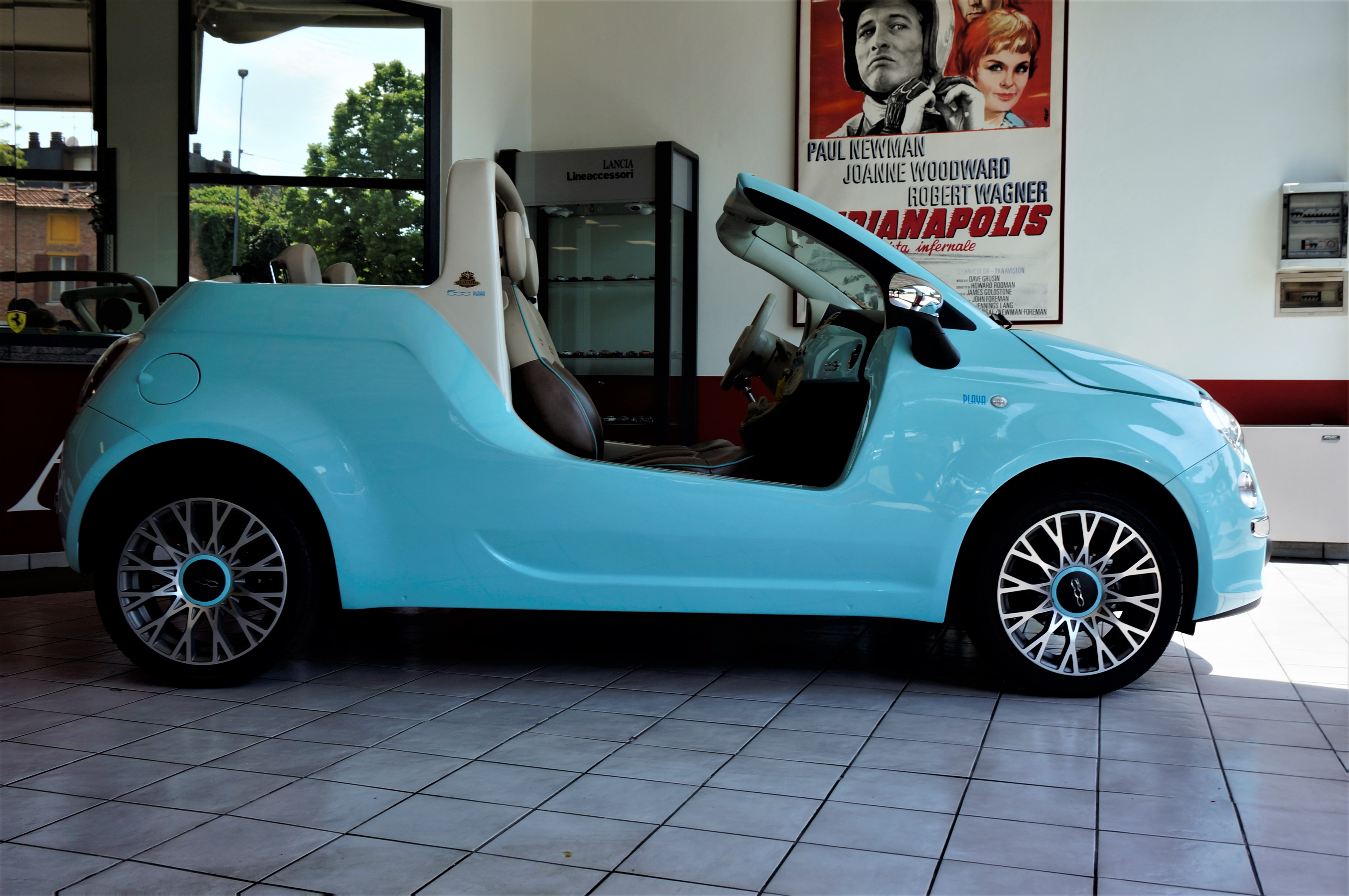 Fiat 500 Playa, special car prototype one-off street legal cabriolet spider